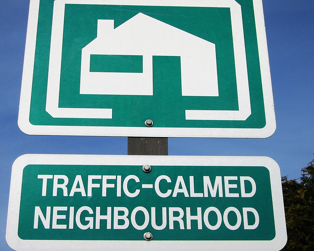 "Traffic-calmed neighbourhood" sign (likely located in British Columbia, Canada)